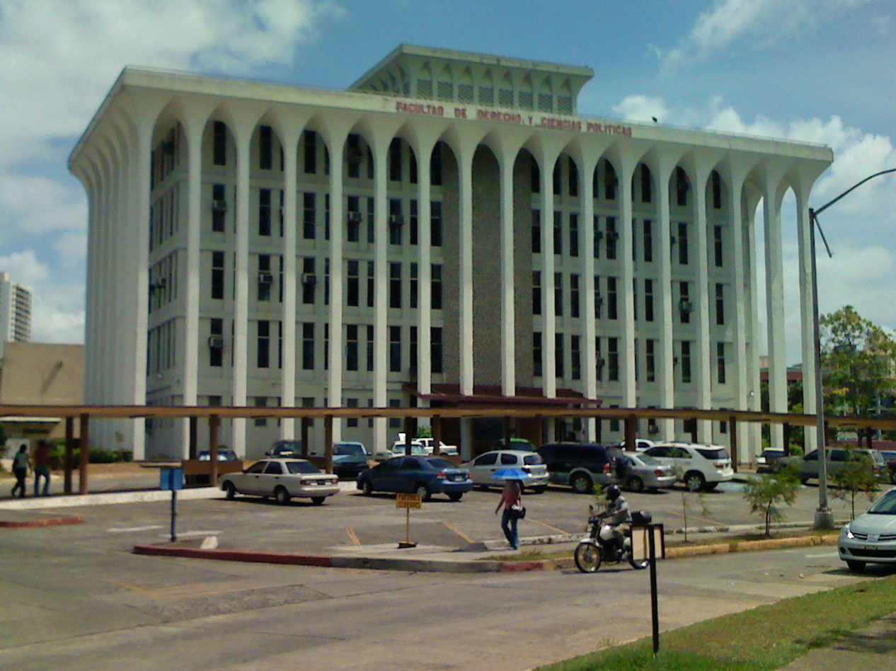 University